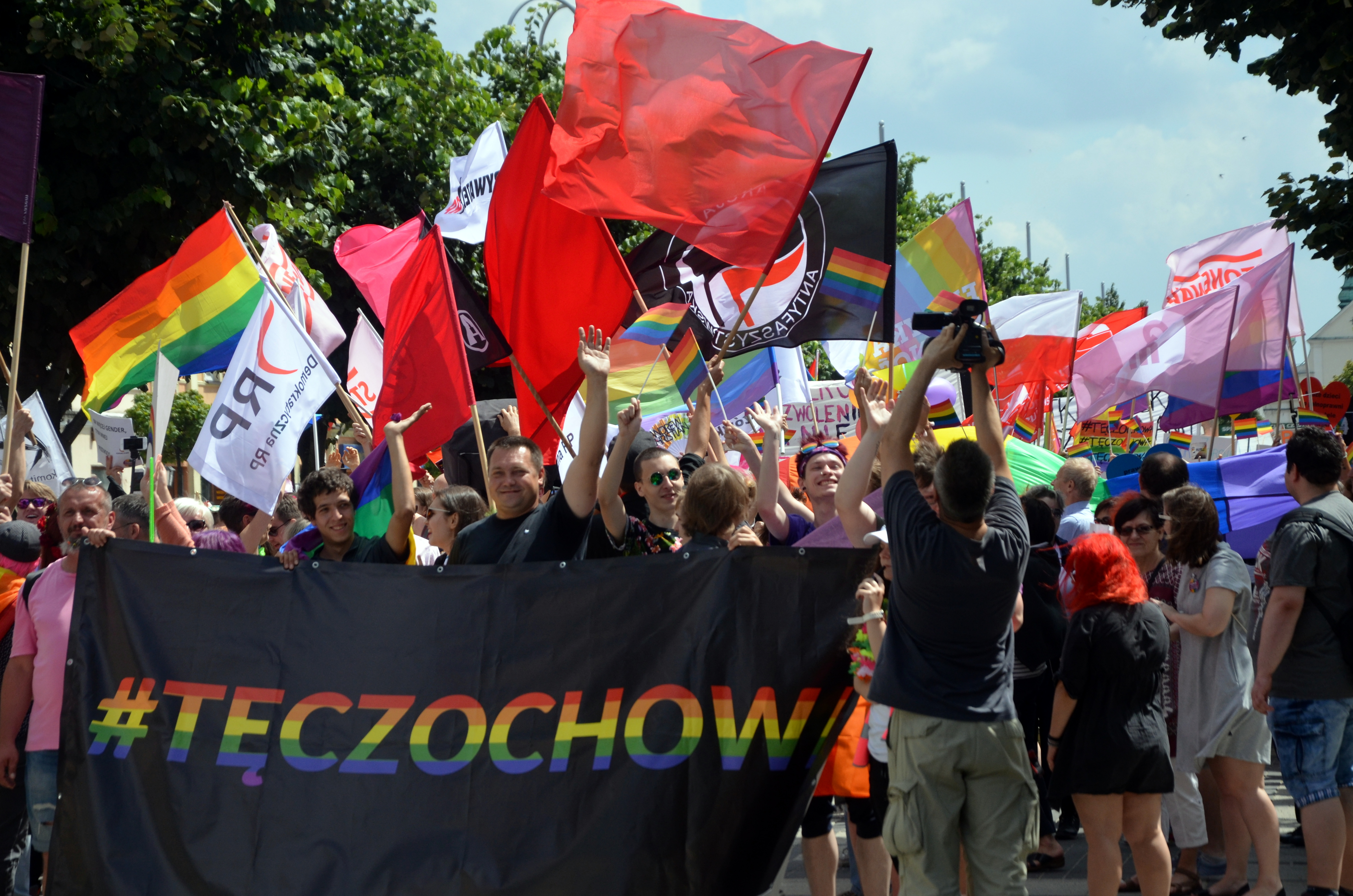 Equality March 2018 in Częstochowa